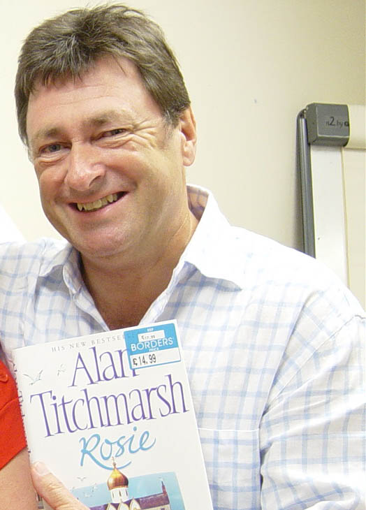 Alan Titchmarsh at a Border's book signing